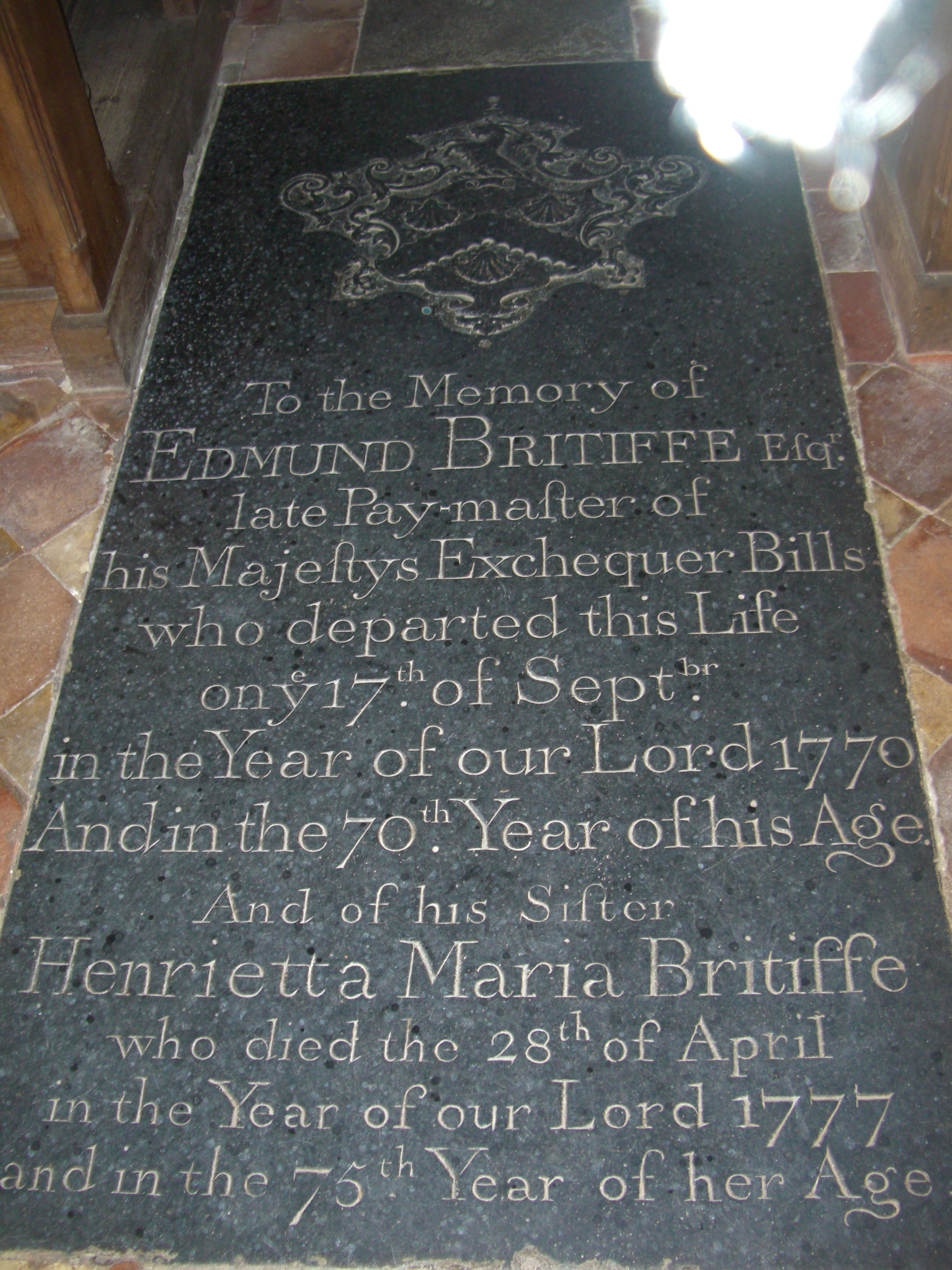 Memorial to Edmuncd and Henrietta Britliffe in St Lawrence Church, Hunworth, Norfolk